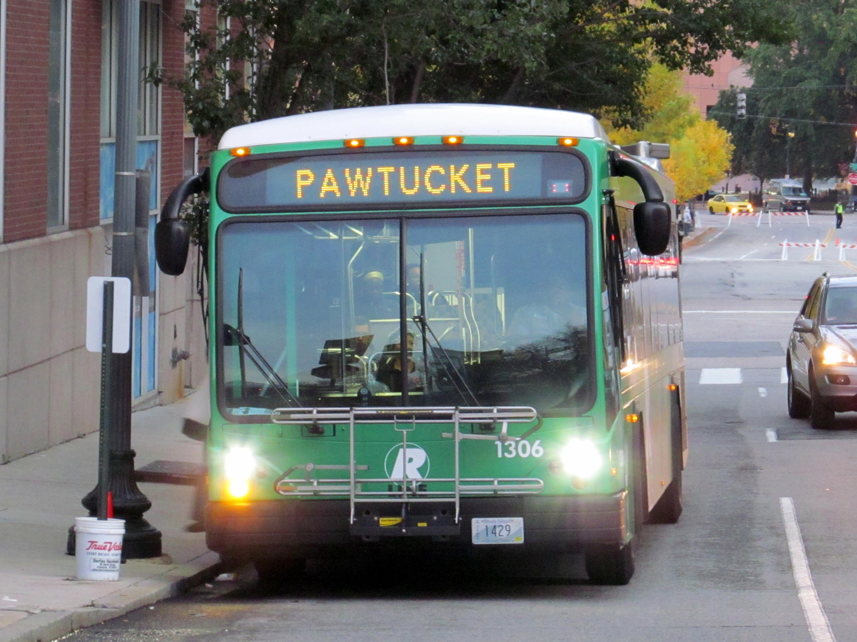 A RIPTA R-Line bus on Exchange Street at the Providence Station stop